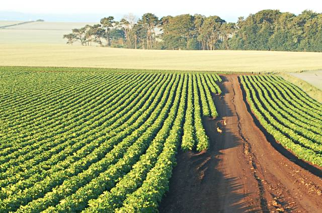 Fields in the early light. Potatoes, wheat and two hares enjoying the early sunlight in fields by Abercrombie.